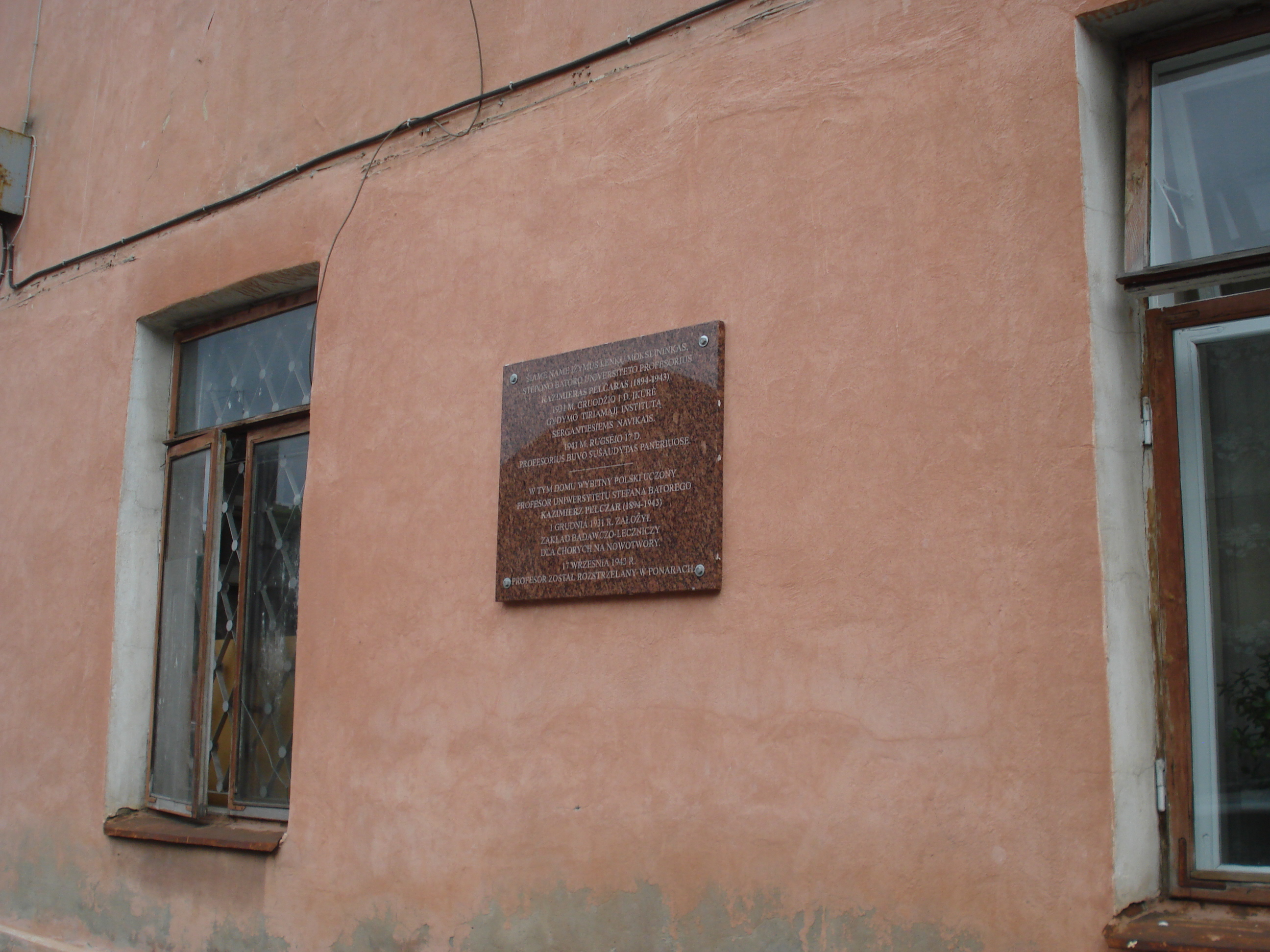 Kazimierz Pelczar (1894–1943), the prominent professor of Vilnius Stefan Batory University, memorial tablet in Vilnius (Polocko g.)